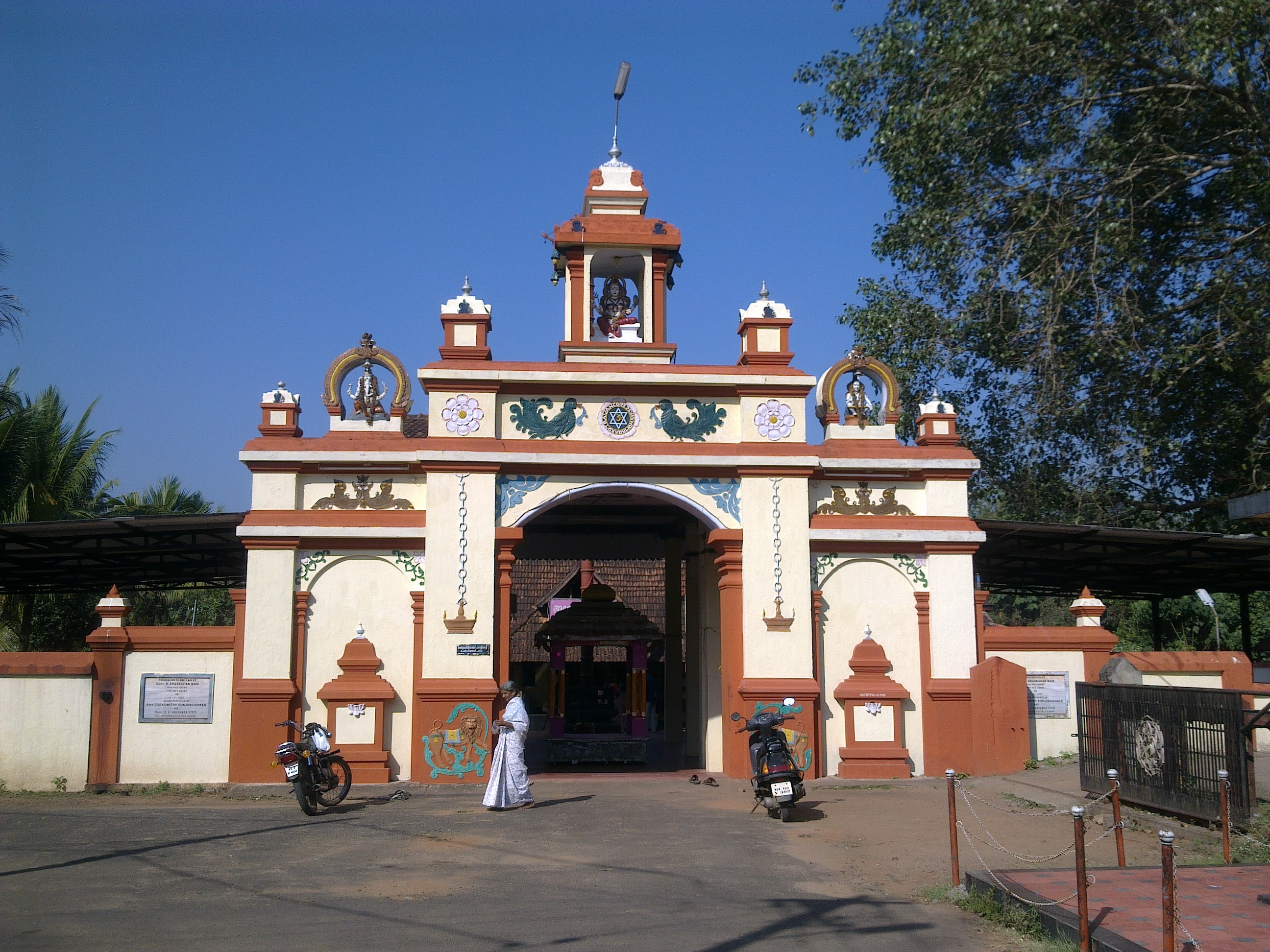 Kavil Temple Changanassery